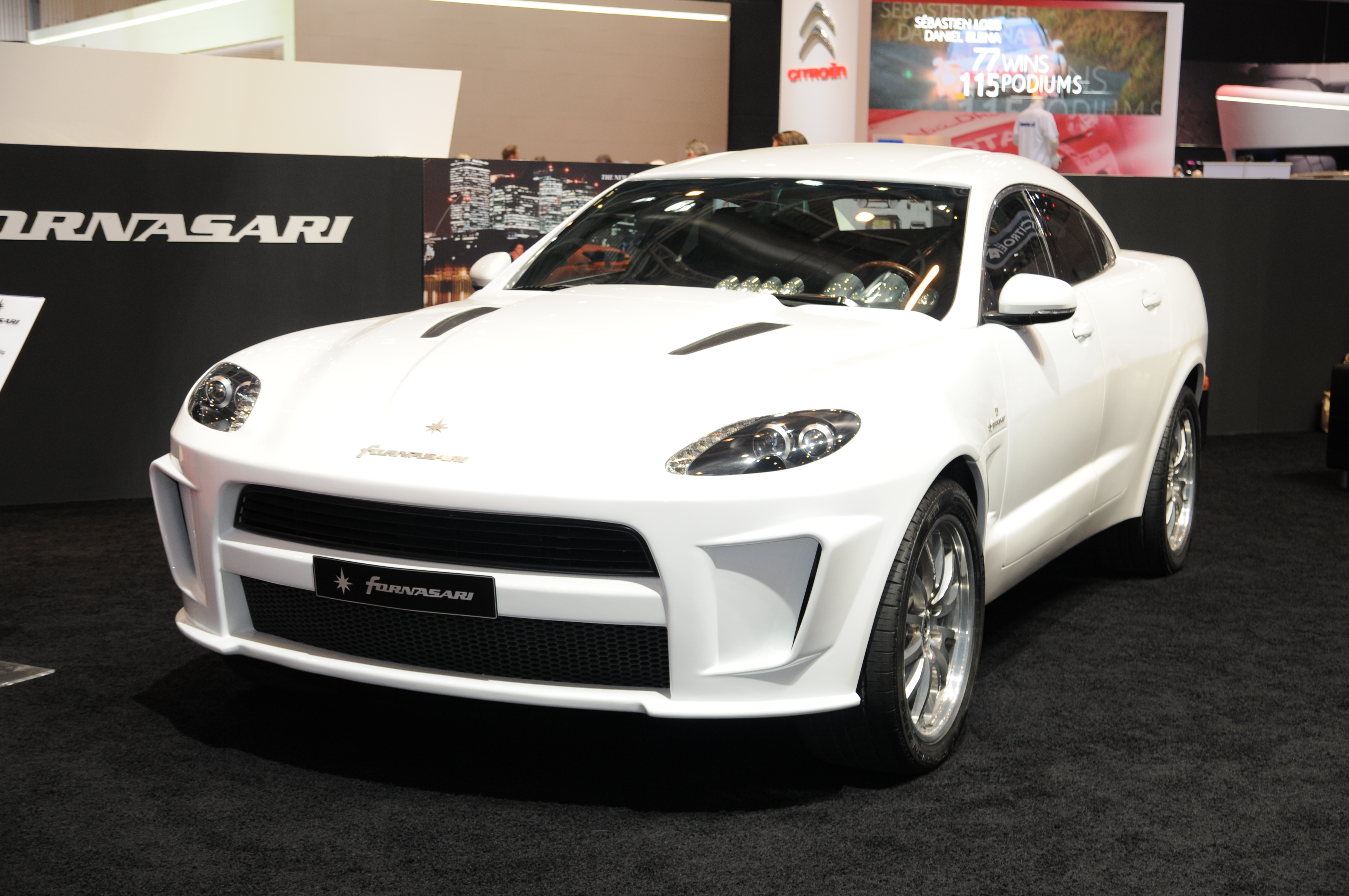 Fornasari 99 at Geneva Motor Show 2013 (photos taken on the first press day)